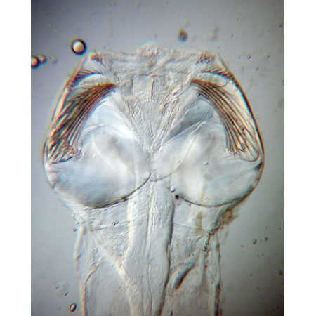 Head of an arrow worm, Sagitta" sp.